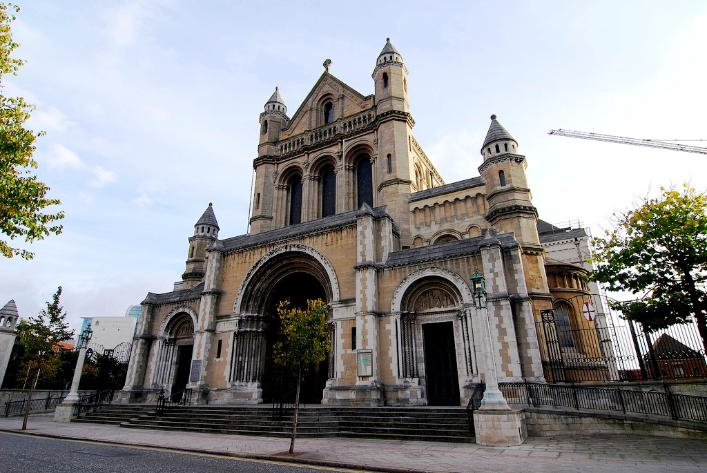 Credit - donnamarijne on Flickr